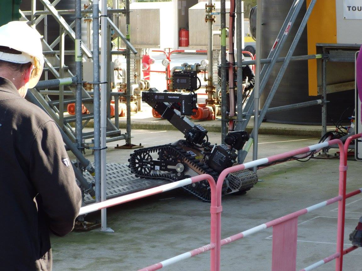 Argonaut robot entering the ARGOS Challenge competition site by lowering its forward wheels. Photo taken by taurob GmbH and TU Darmstadt.